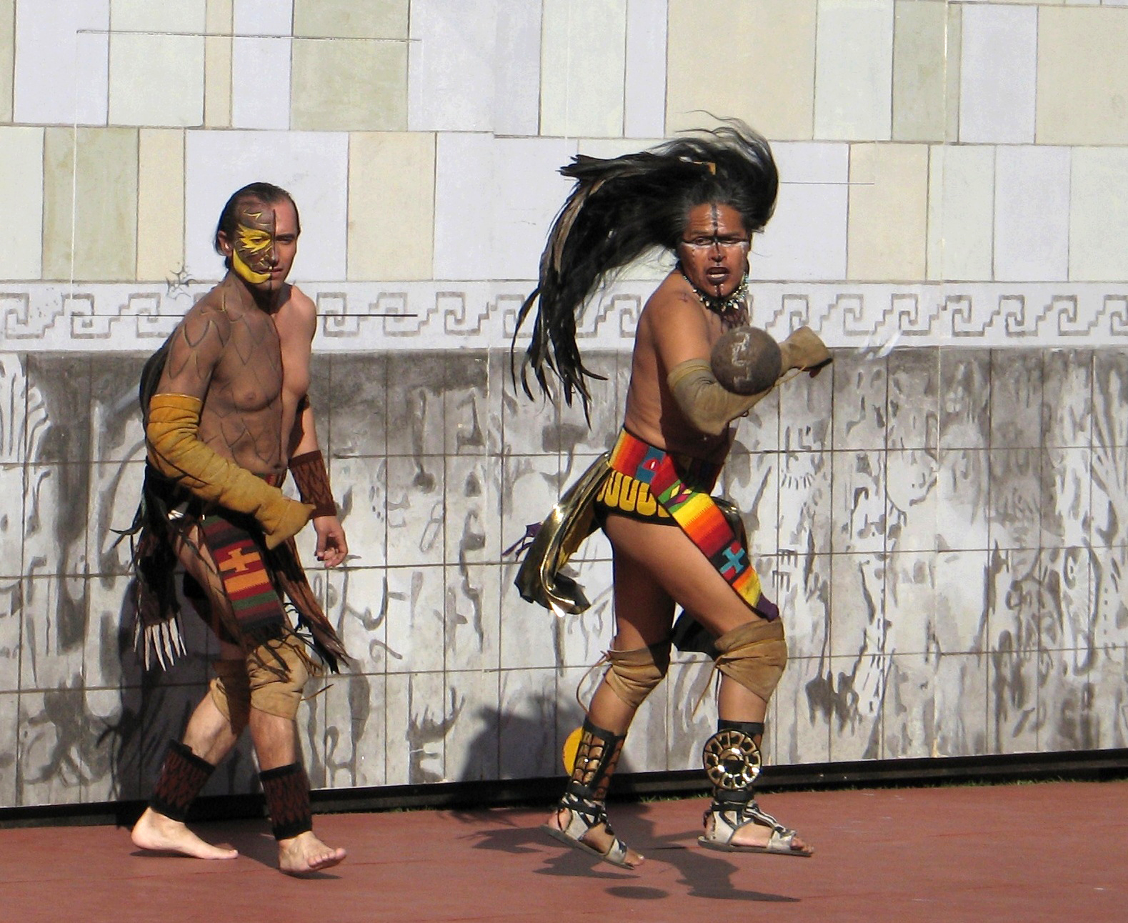 Pok-ta-pok player in action